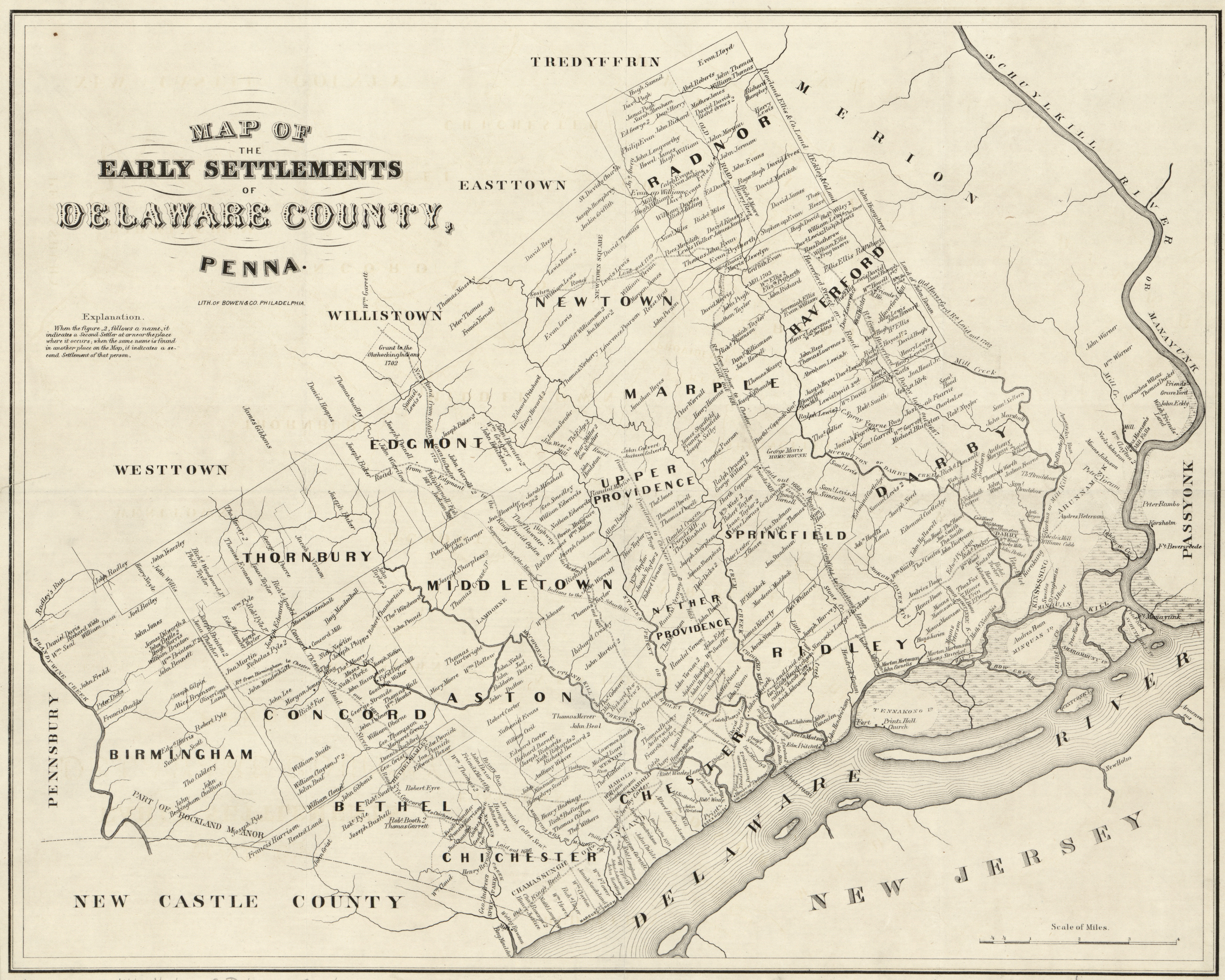 Map of the early settlements of Delaware County, Pennsylvania. Published 1862, but shows landholdings c. 1790 when Delaware County separated from Chester County. Library of Congress Metadata follows: Title Map of the early settlements of Delaware County, Penna. Contributor Names Smith, George, 1804-1882. Ashmead, Henry Buckley. Bowen & Co. Created / Published [Philadelphia : H.B. Ashmead, 1862] Subject Headings - Landowners--Pennsylvania--Delaware County--Maps - Delaware County (Pa.)--Administrative and political divisions--Maps - United States--Pennsylvania--Delaware county Genre Maps Notes - Shows landholders' names and townships (ca. 1790) as after the separation of Delaware County from Chester County in 1789. Does not show boundary lines of real-property tracts. - Removed from textual publication: Smith, George, 1804-1882. History of Delaware County, Pennsylvania, 1862. LC classification: F157.D3 S6. - Originally designed to fold to 23 x 13 cm. - Available also through the Library of Congress Web site as a raster image. - LC copy imperfect: Annotated in lead pencil in lower margin to give name of the original publication. - LC copy accompanied by negative photostat copy. - Includes note. - LC Land ownership maps, 739 Medium 1 map : cloth backing ; 36 x 45 cm. Call Number G3823.D4G46 1790 .S6 Repository Library of Congress Geography and Map Division Washington, D.C. 20540-4650 USA dcu Digital Id Library of Congress Catalog Number 2012593312